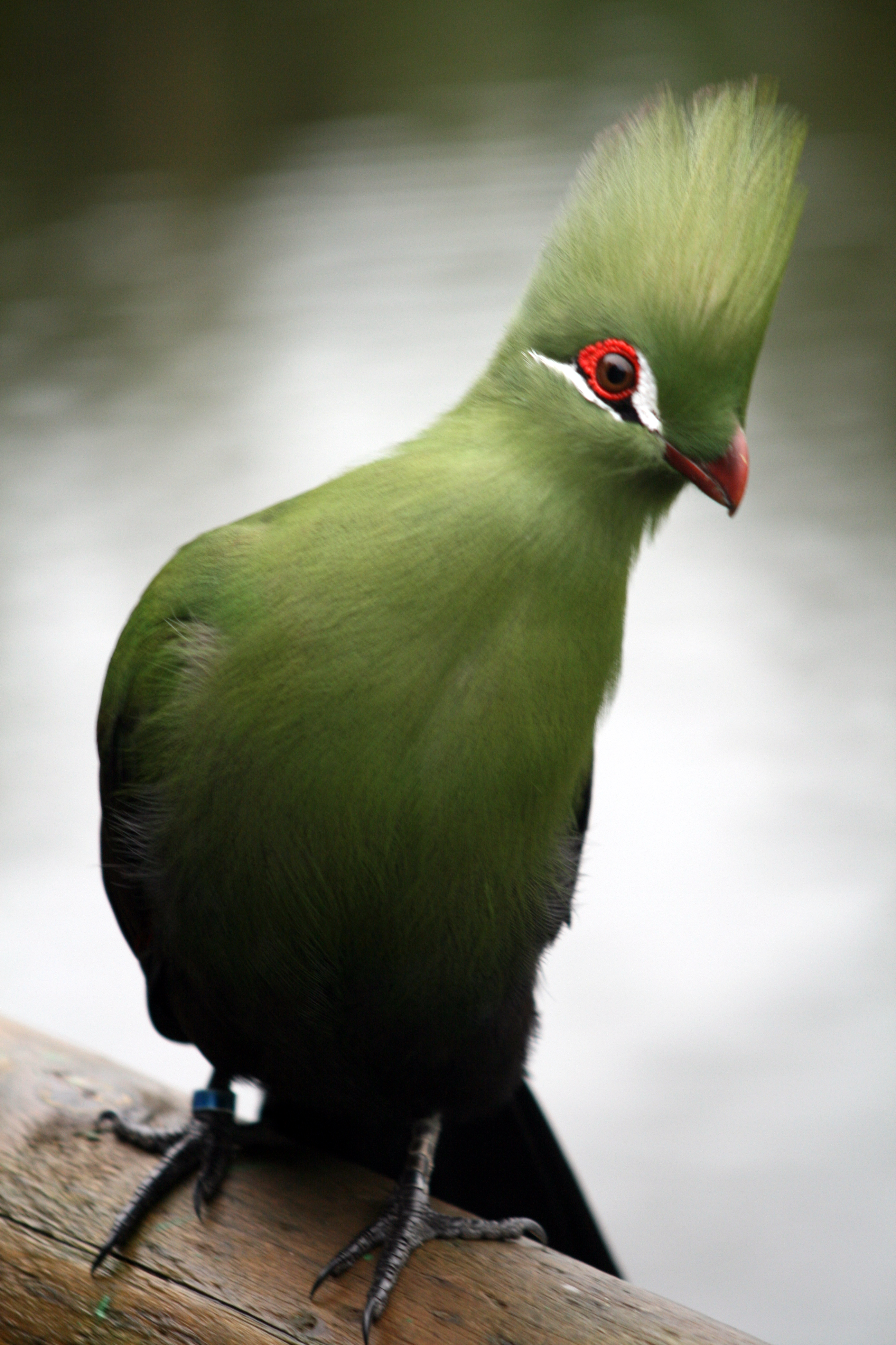 a Guinea Turaco, aka Green Turaco (Tauraco persa). At Birds of Eden, South Africa.